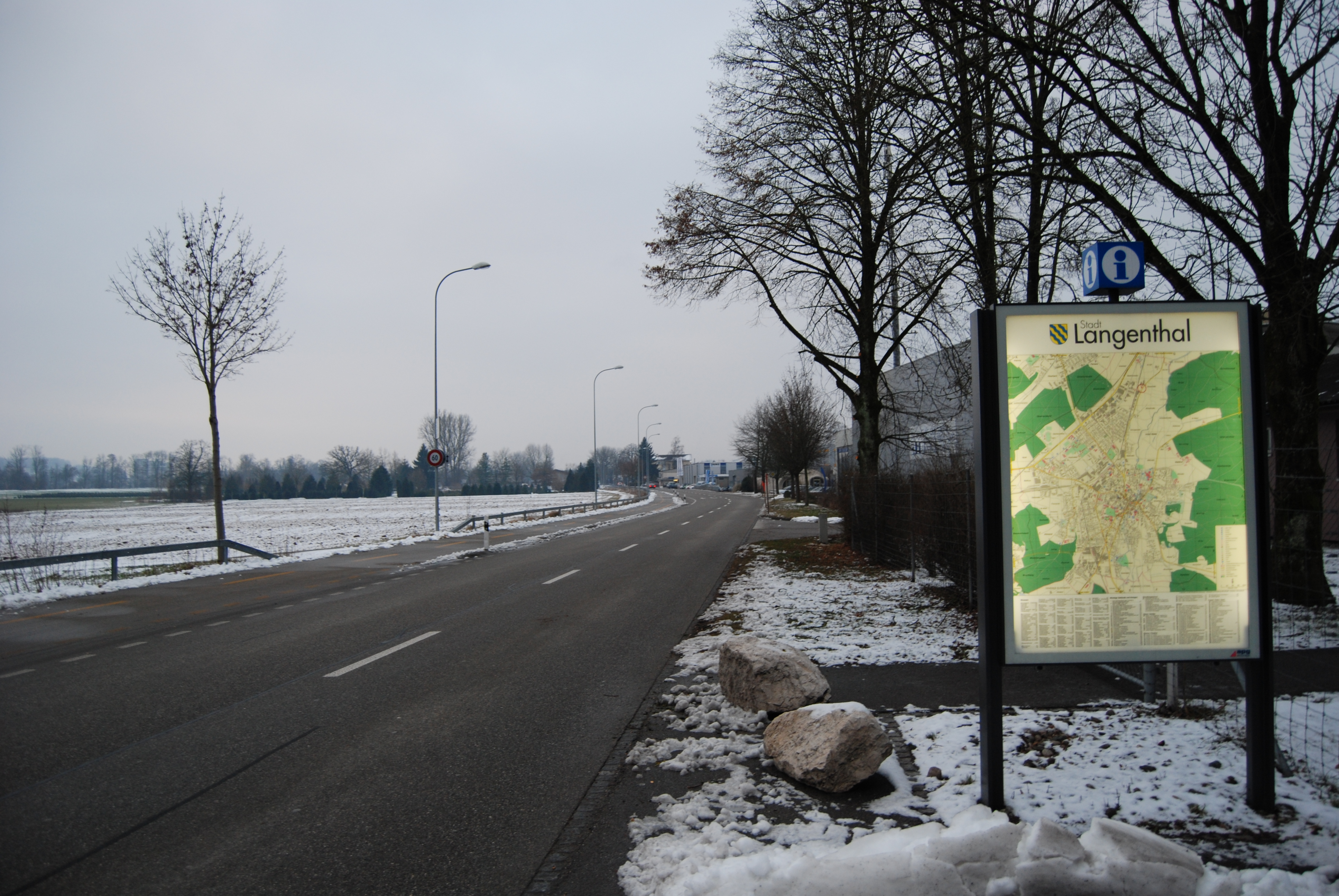 Information pannel with map of the city of Langenthal, canton of Bern, SwitzerlandEsperanto: Informtabulo kun mapo de la urbo Langenthal, Kantono Berno, Svislando